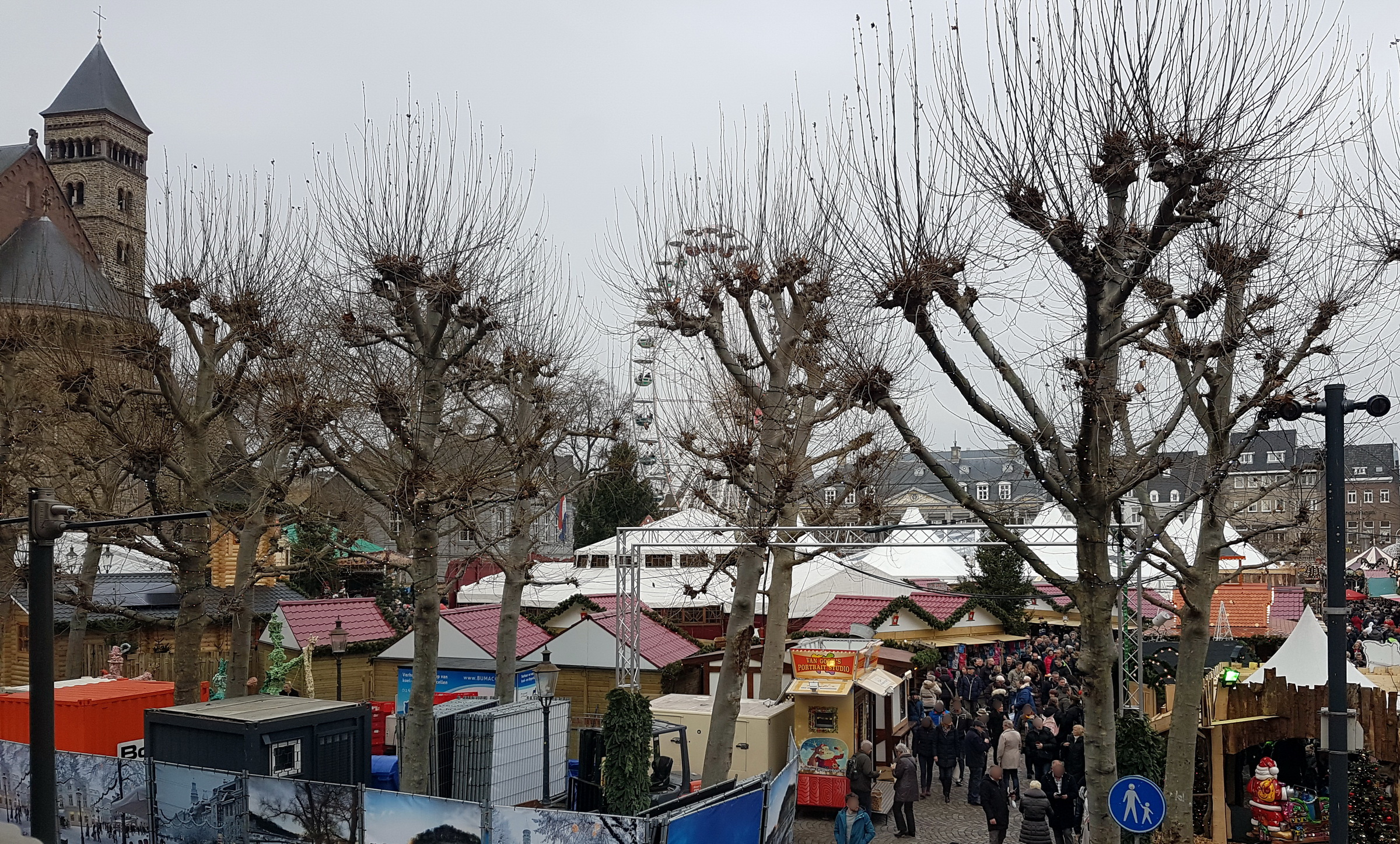 Maastricht, the Netherlands. View of the Christmas Market on Vrijthof square.